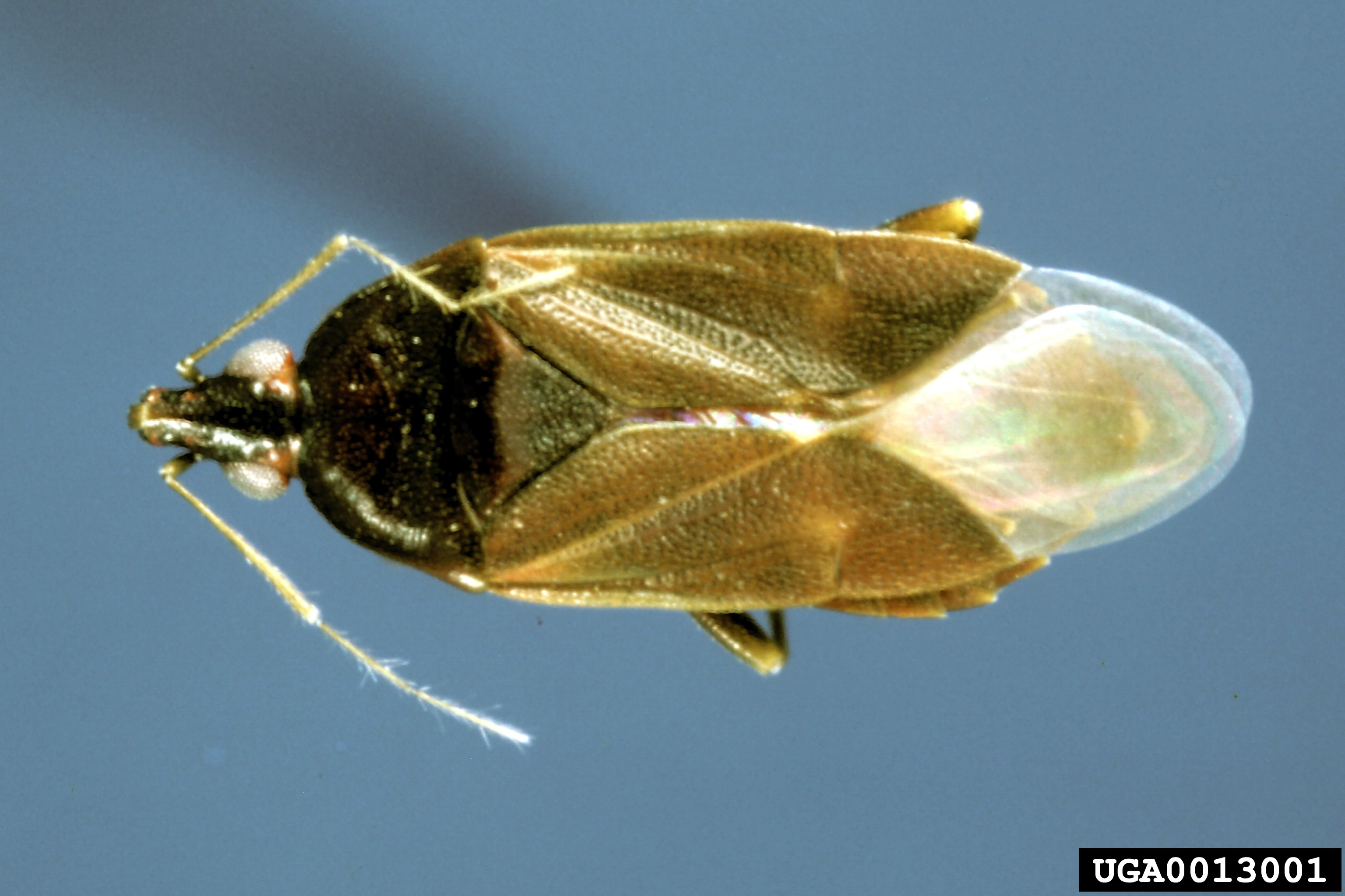 Insect species Scoloposcelis flavicornis